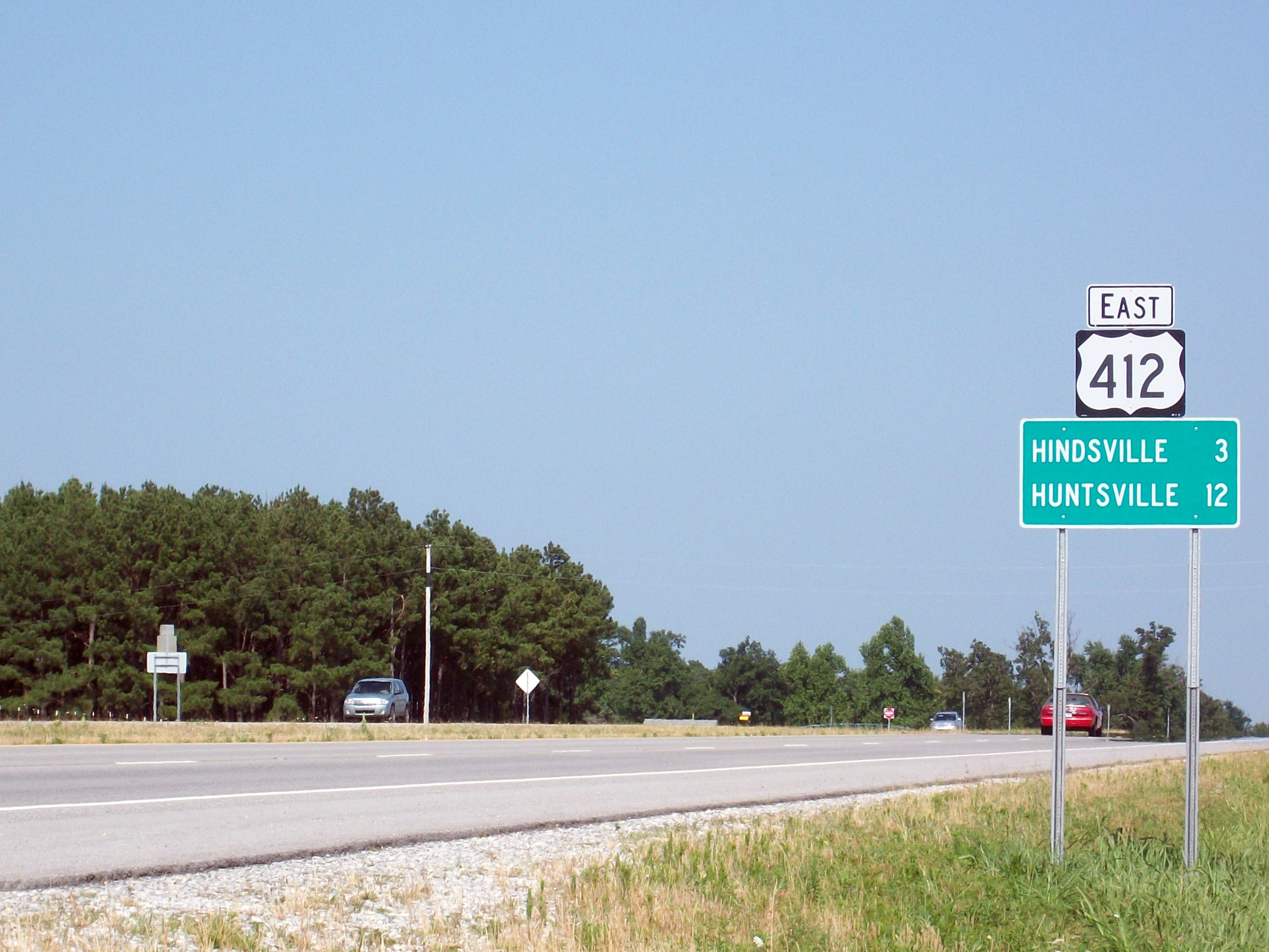 US 412 eastbound in Carroll County, Arkansas. Near Hindsville.